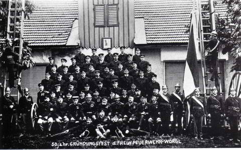 Photograph of the 50th anniversary of the formation of the fire brigade of Wörgl (Tyrol, Austria).